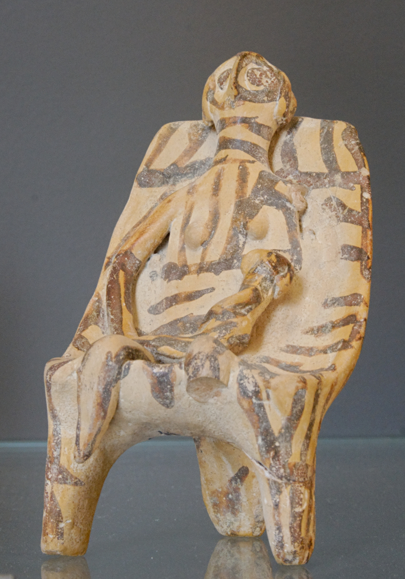 Phi-figurine of a woman holding a child. Terracotta, Late Mycenaean IIIA (ca. 1360 BC). From Mycenae.